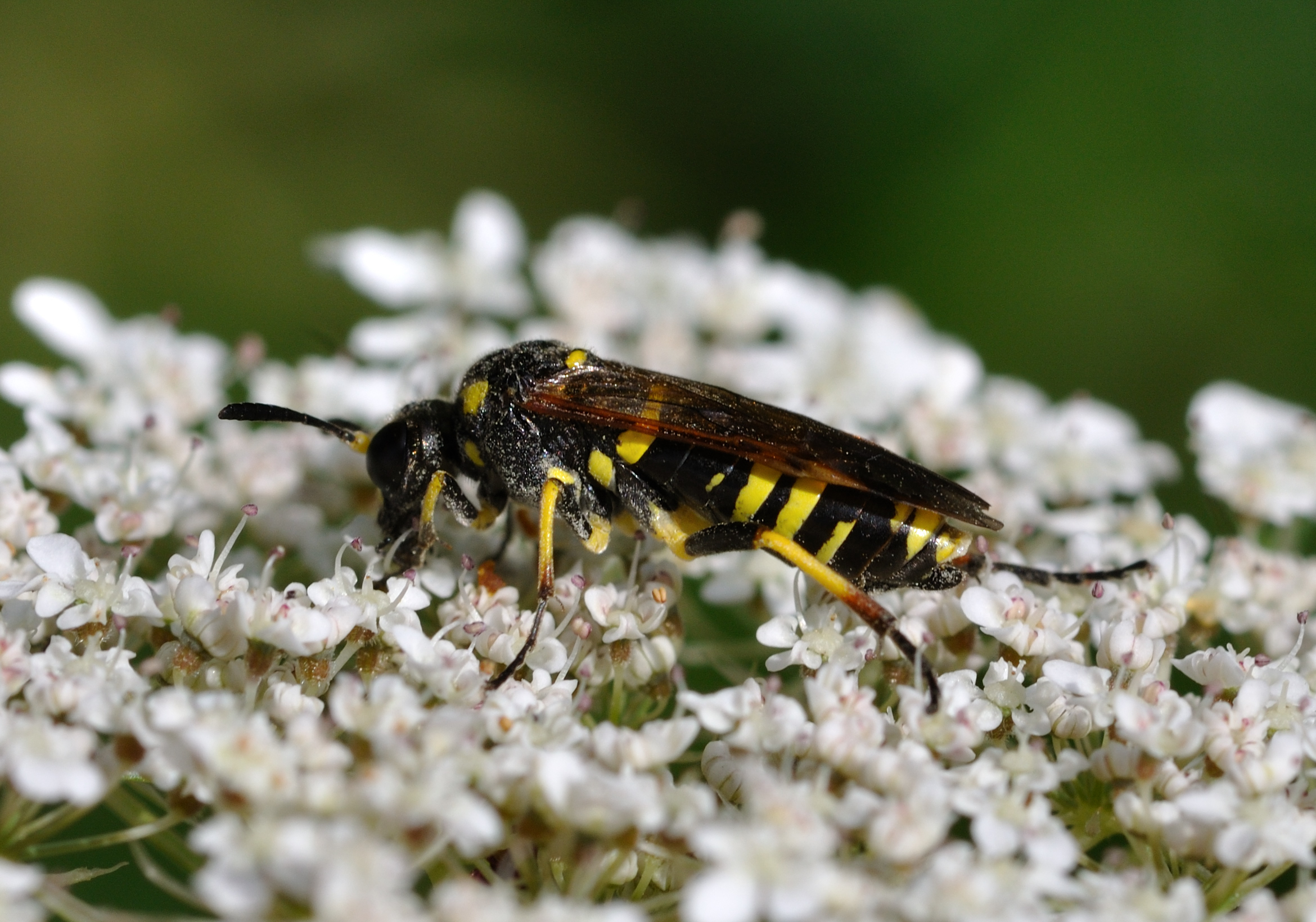 Sawfly Tenthredo marginella at a retention basin in Ahlen, Germany.